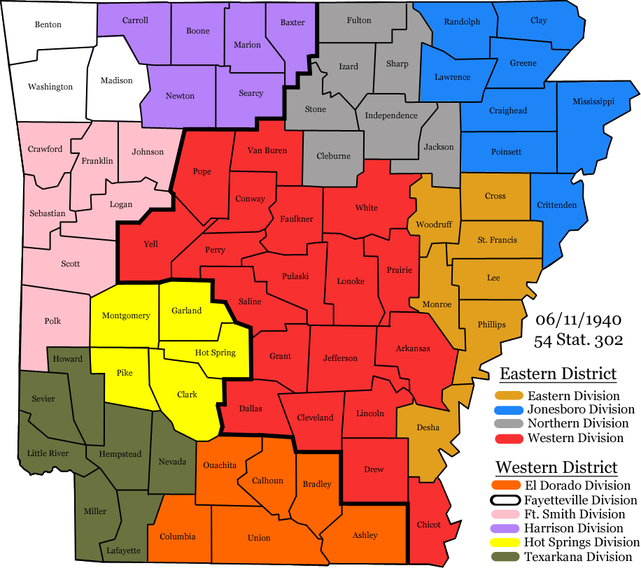 Arkansas districts - Jun 11, 1940